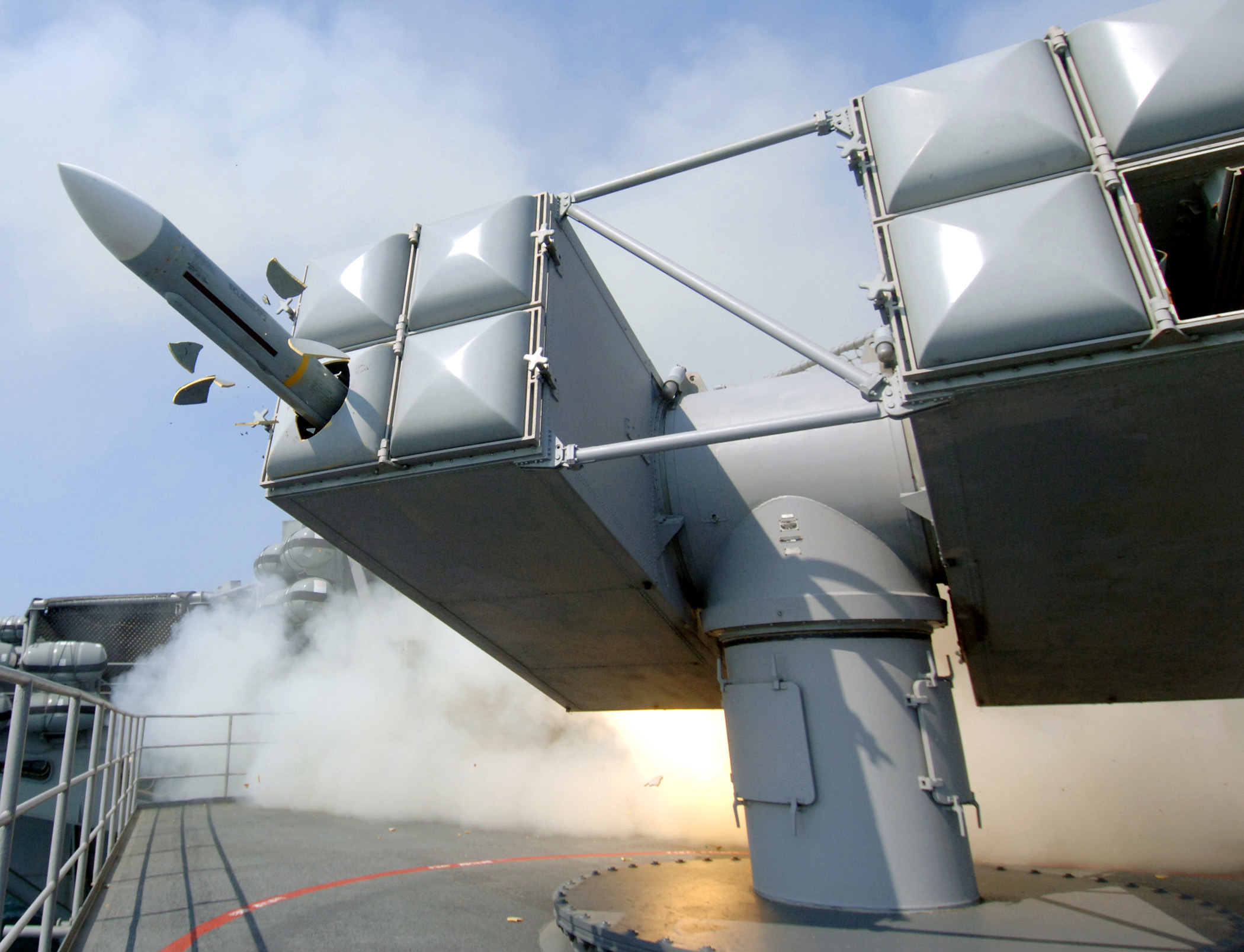 A launching Sea Sparrow anti-aircraft missile